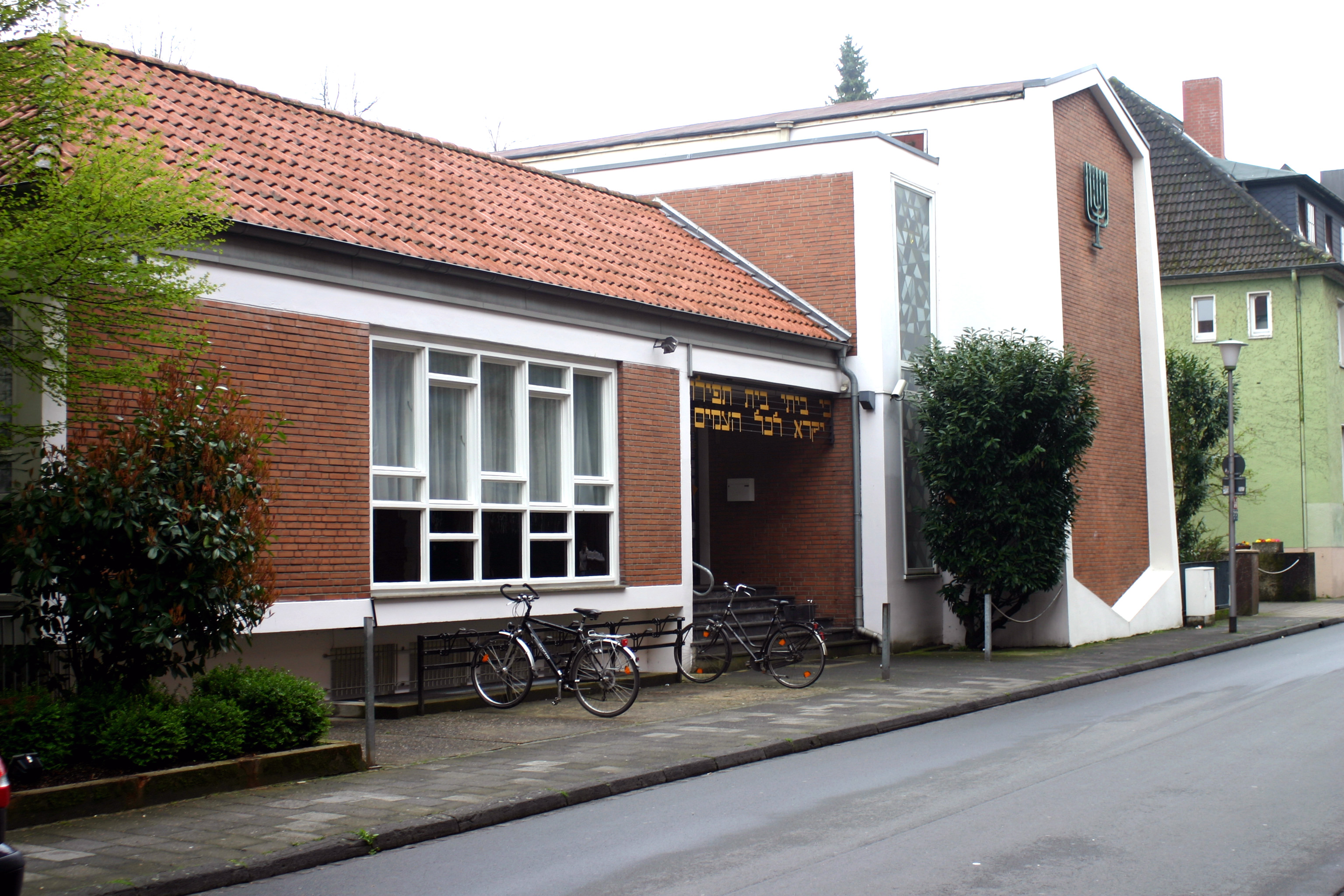 Synagogue in Münster, Germany